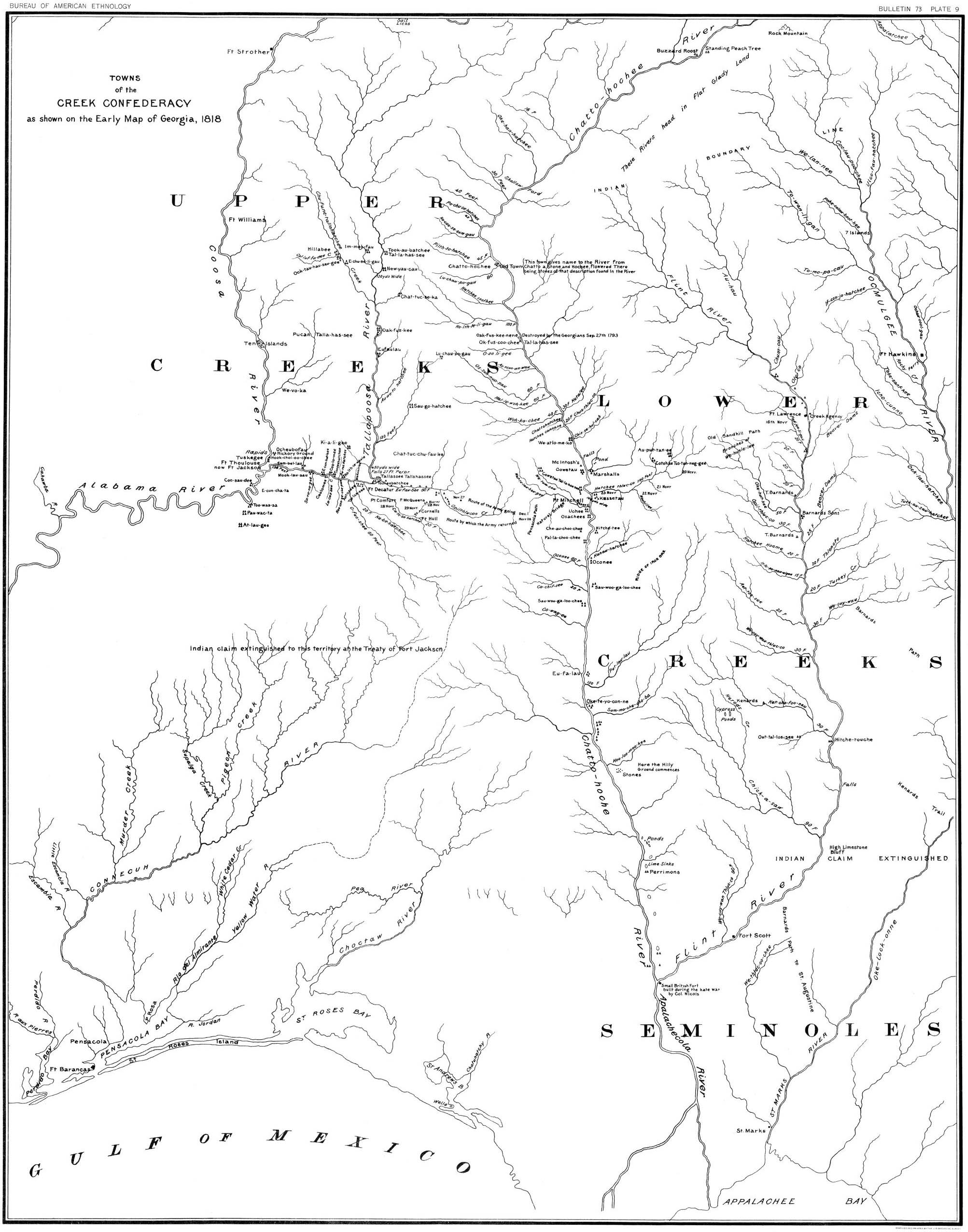 "Towns of the Creek Confederacy as Shown on the Early Map of Georgia, 1818."